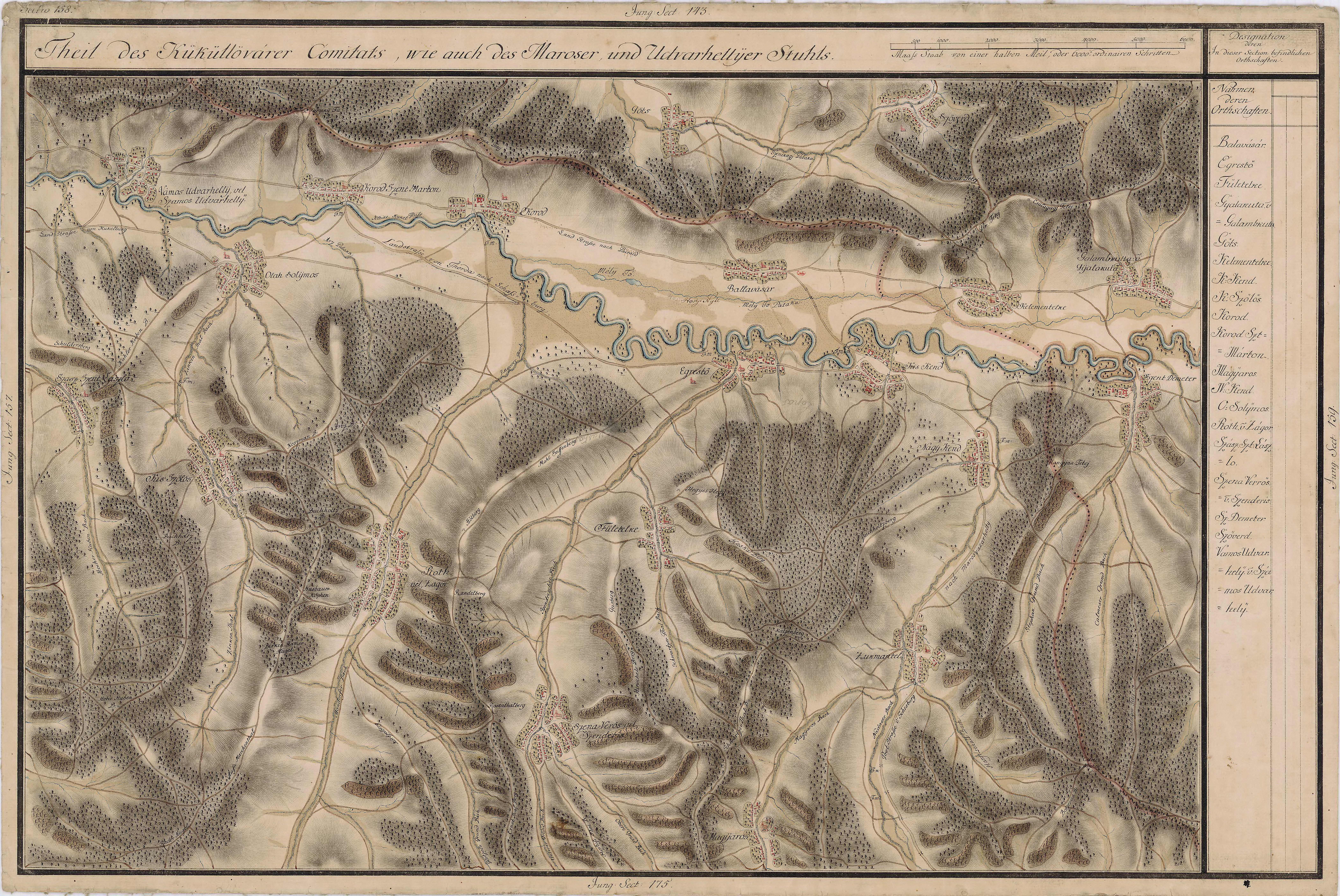 Grand Duchy of Transylvania, 1769-1773. Josephinische Landaufnahme pg.158